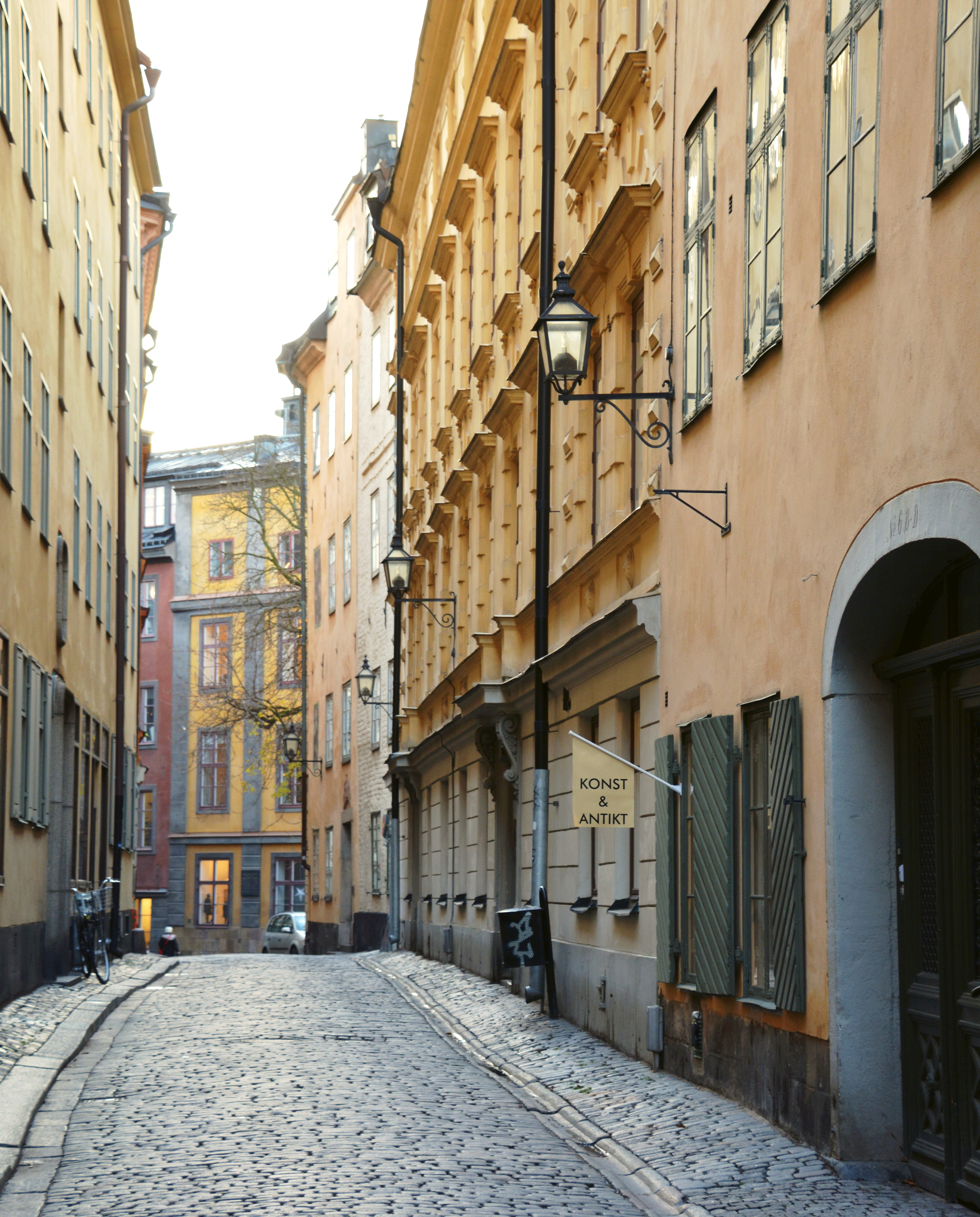 Själagårdsgatan, Old Town, Stockholm. Southwards from Brända tomten